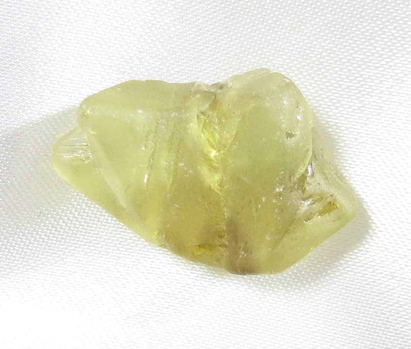 Chrysoberyl. taken by Azuncha.